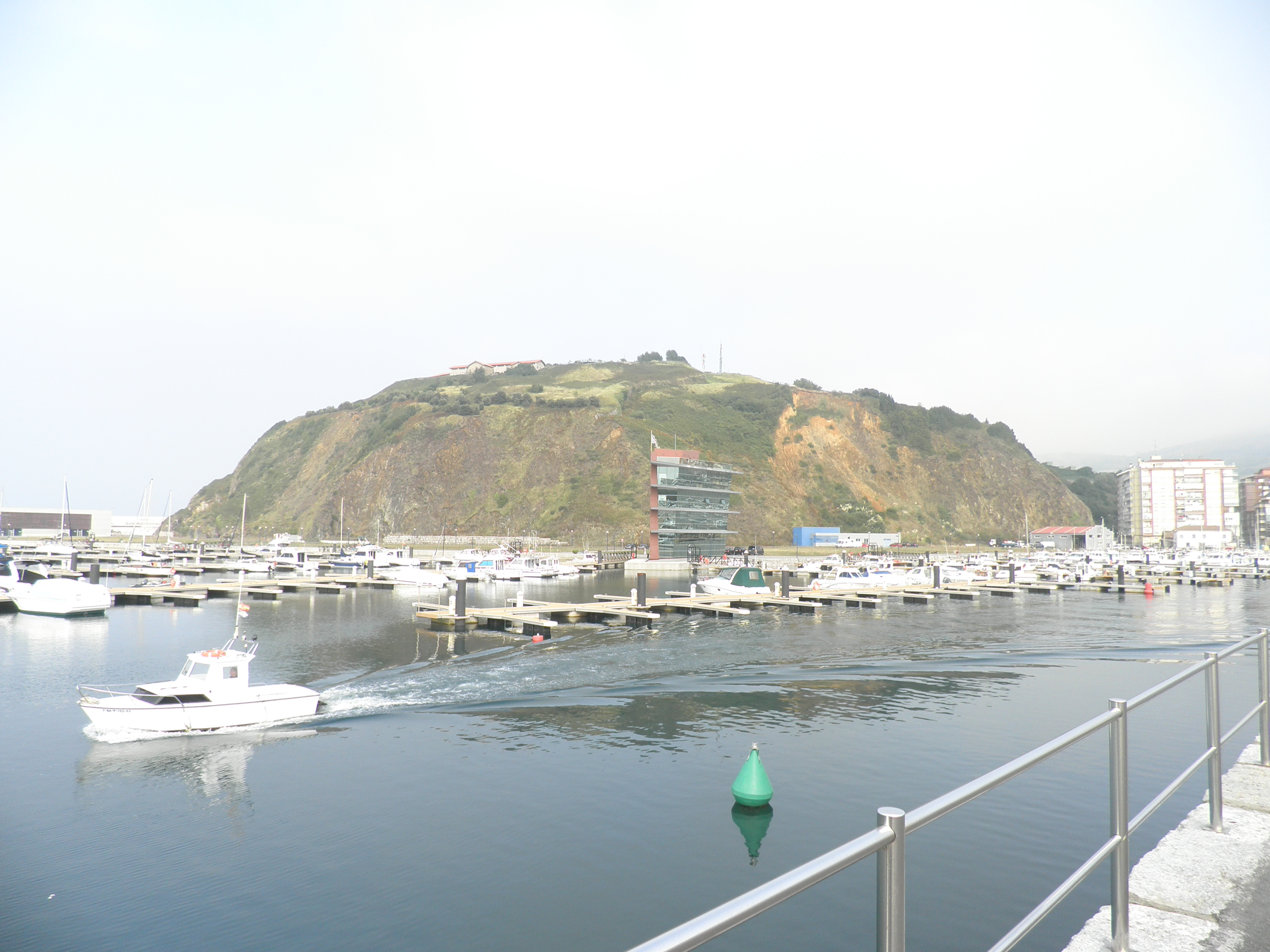 View of La Atalaya from Laredo's new port